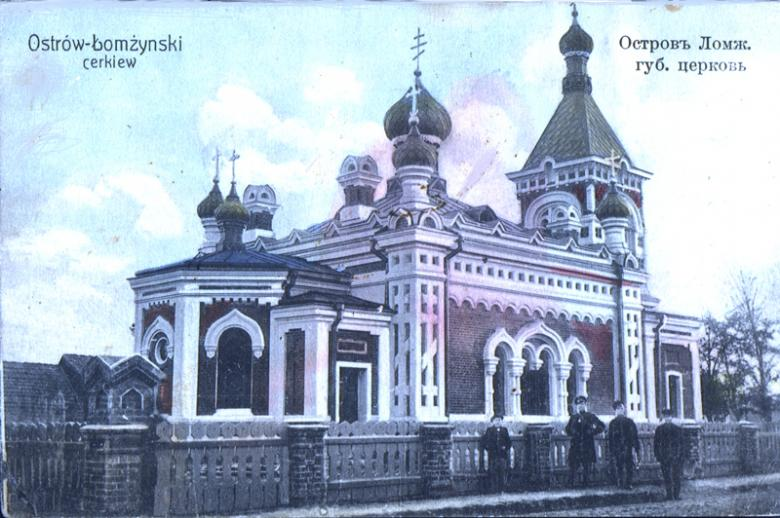 Orthodox church in Ostrow Mazowiecka. A postcard from Aleksander Sosna's collection.